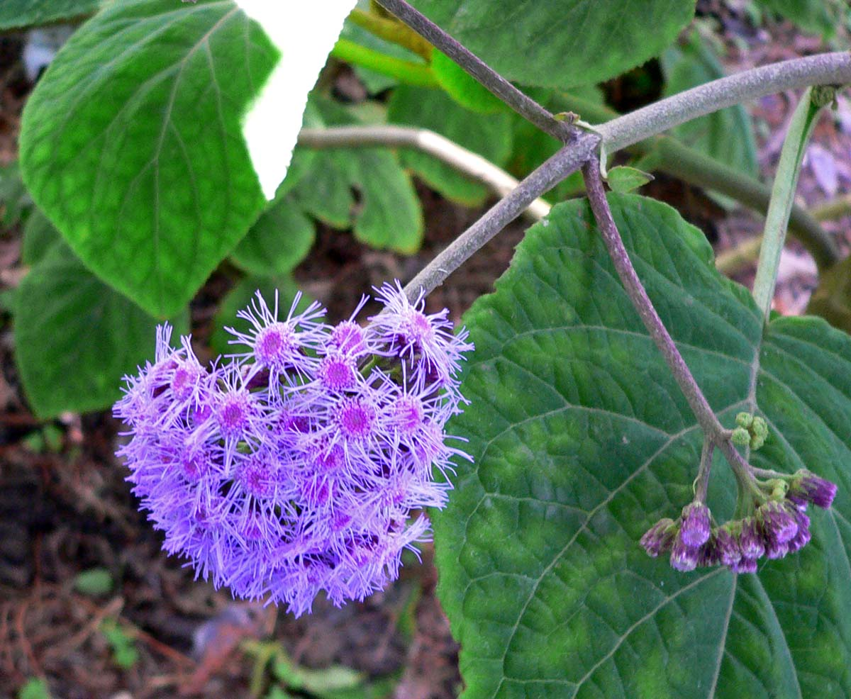 Photo of Bartlettina sordida at the San Francisco Botanical Garden